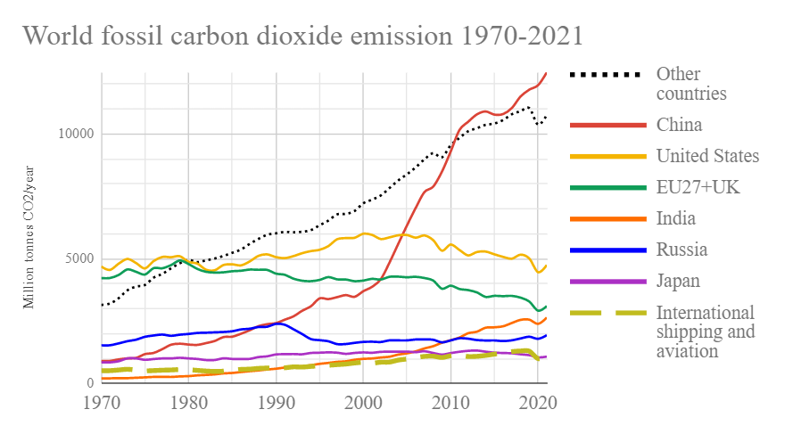 World fossil carbon dioxide emissions 1970 to 2018, with the six top emitting countries and confederations. Data source: EDGAR - Emissions database for Global Atmospheric Research. Published in: Crippa, M., Oreggioni, G., Guizzardi, D., Muntean, M., Schaaf, E., Lo Vullo, E., Solazzo, E., Monforti-Ferrario, F., Olivier, J.G.J., Vignati, E., Fossil CO2 and GHG emissions of all world countries - 2019 Report, EUR 29849 EN, Publications Office of the European Union, Luxembourg, ISBN 978-92-76-11100-9, JRC117610, September 2019.